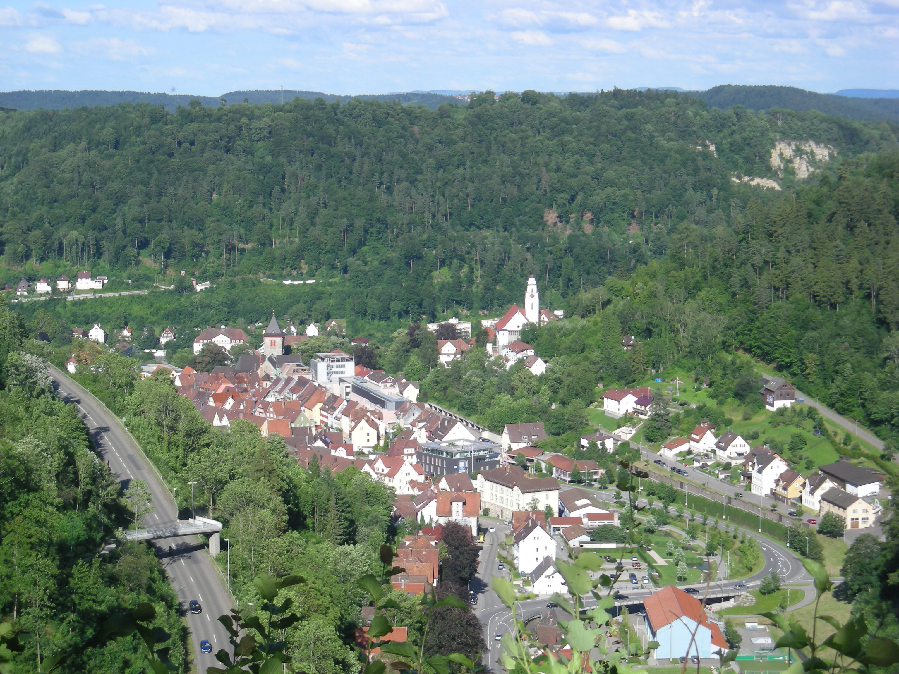 A view of the city from the hills in Oberndorf, Baden-Württemberg (Germany).